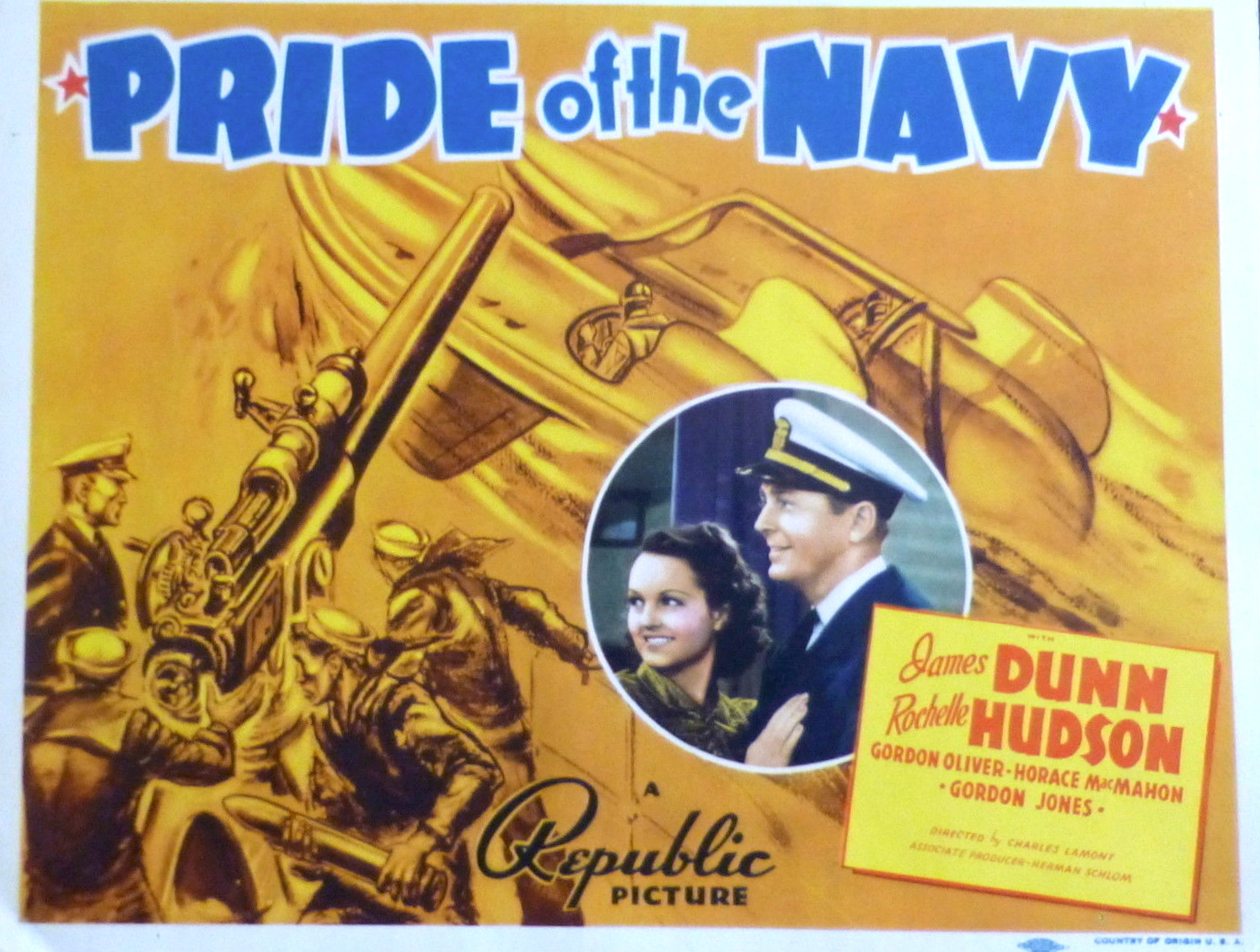 Lobby card for the 1939 film Pride of the Navy. There are no copyright marks on the card. An uncropped copy of the card can be seen at the link above. At bottom right is a printers' mark noting that the card was printed by a union print shop and Country of origin USA.